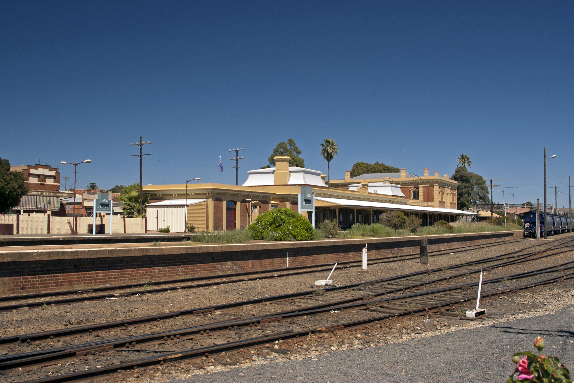 Junee Railway Station and the former Railway Hotel.